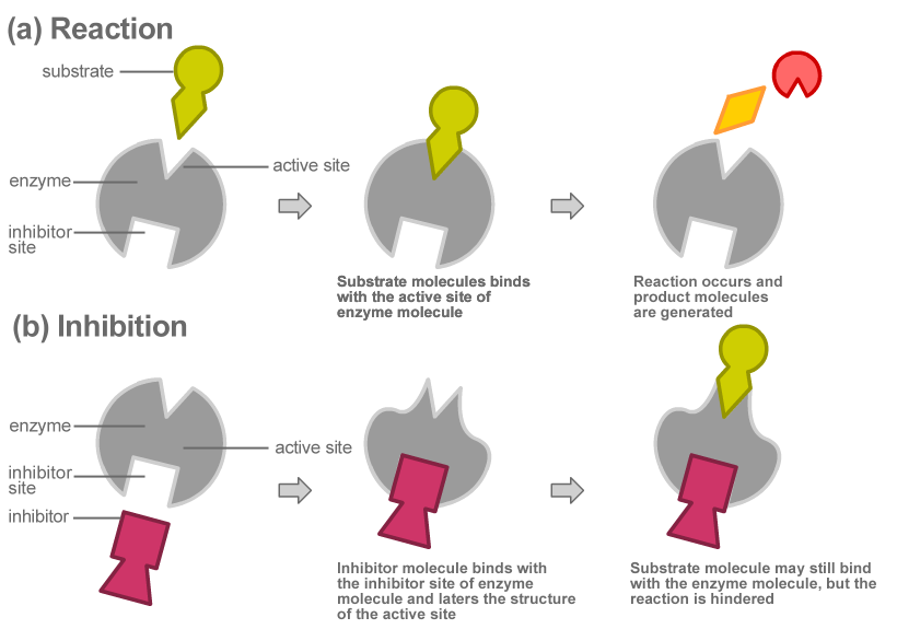 Created by Jerry Crimson Mann 19:04, 1 August 2005 (UTC).